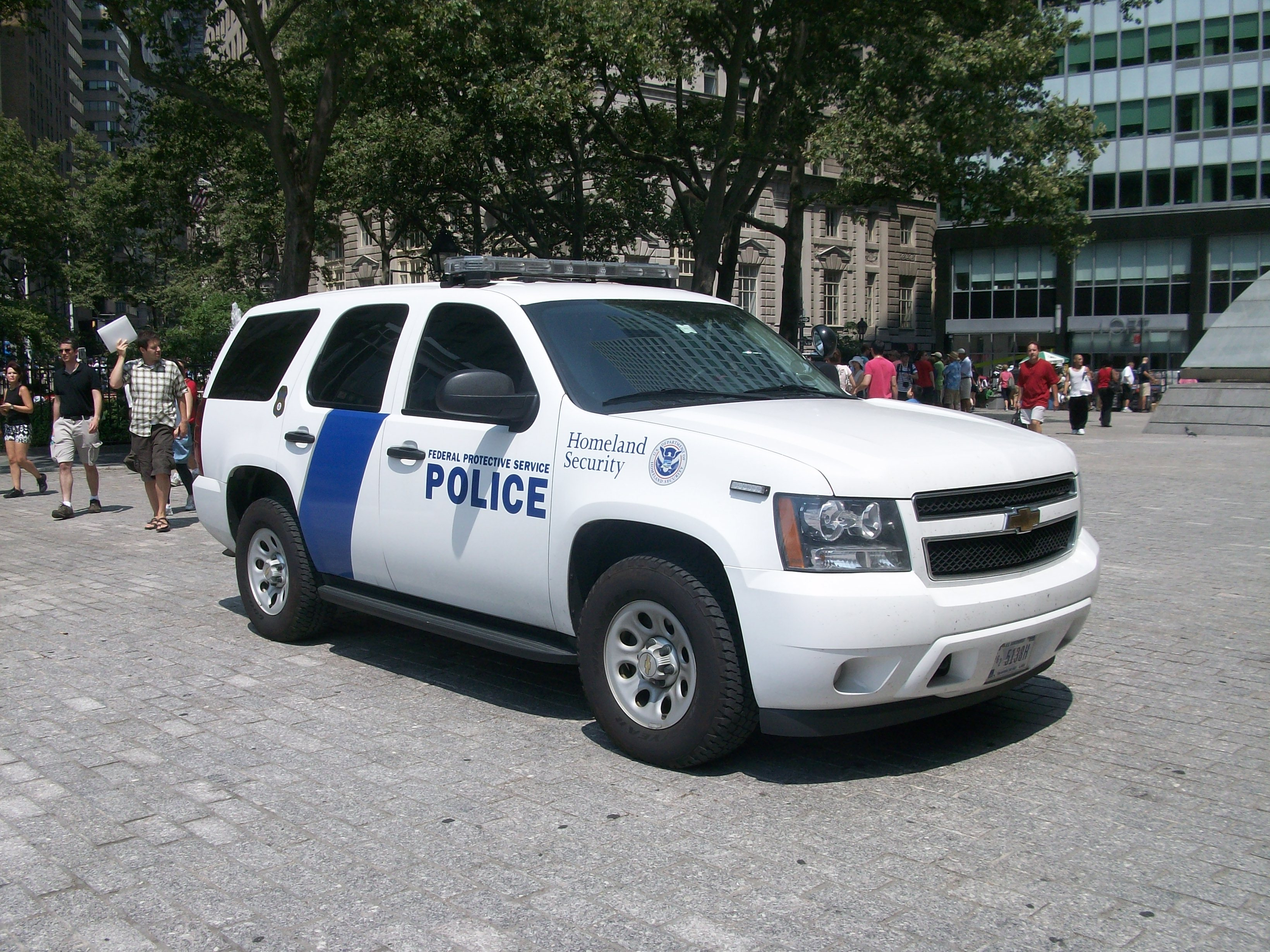 A Chevrolet GMT921 of the Homeland Security